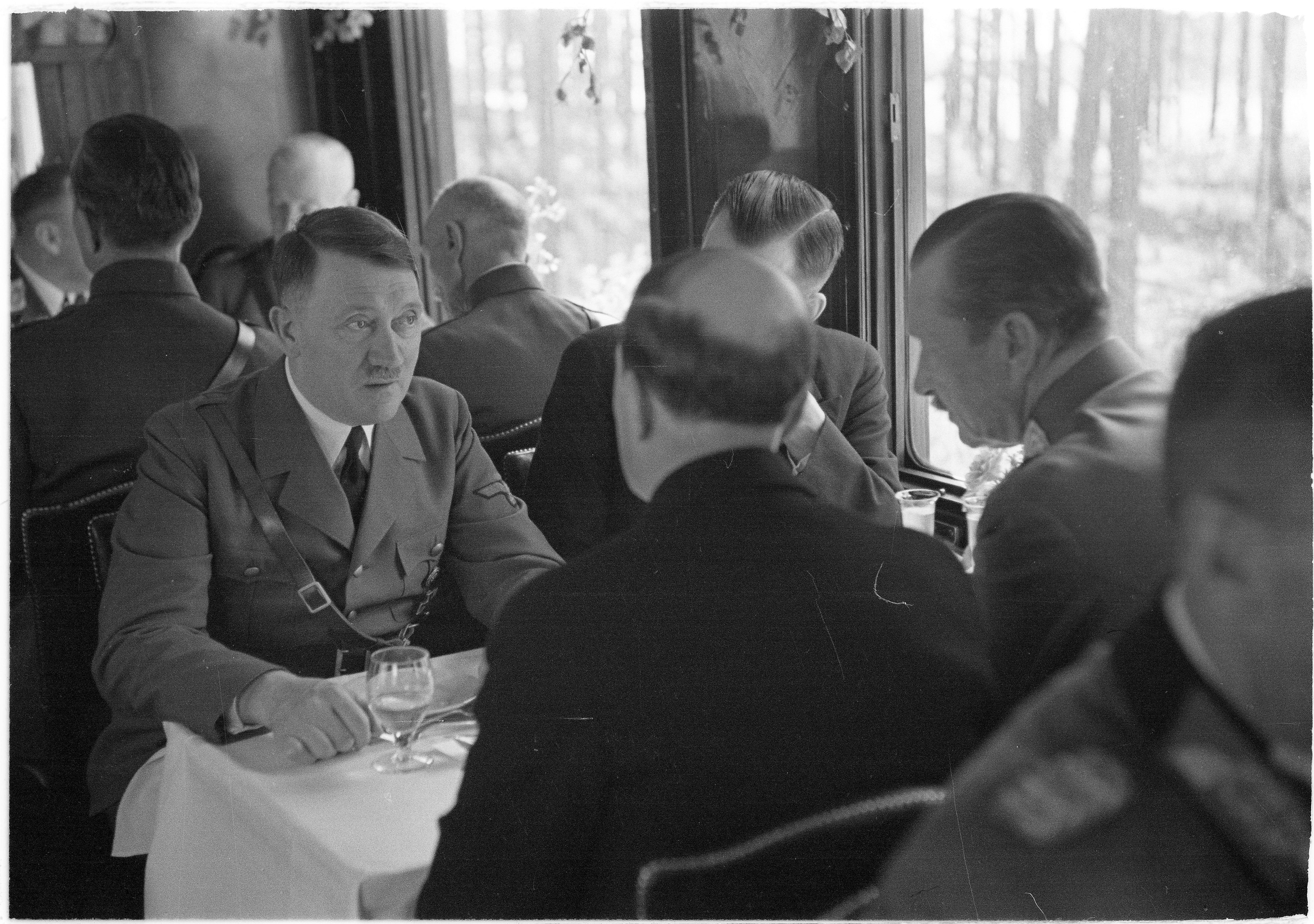 File photo shows Adolf Hitler (left), the dictator of Nazi-Germany, talking privately to C. G. E Mannerheim (right), commander of Finland's forces in World War II during a six-hours visit in Kaukopää (ei Immola) on the occasion of his Finnish ally's 75th birthday 04 June, 1942. The microphones that secretly taped their private conversation were placed just outside the picture above Mannerheim's head. To Hitler's left is Finnish prime minister Jukka Rangell, while the Nordic country's president Risto Ryti has his back towards the camera. The birthday celebration was held in a train due to security reasons. The tape is a treasure trove for actors rendering the intimate side of the Nazi dictator. It was for instance recently used by actor Bruno Ganz, who has won praise for his portrayal of Hitler in the newly released German movie Downfall.